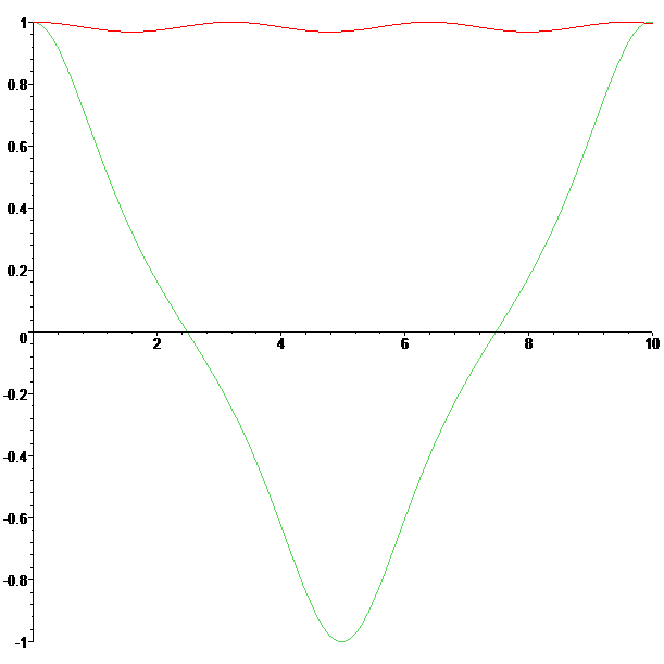 Jacobi Elliptic Funcitons dnk(u) Red line k = 0.25 Green line k = 1.05